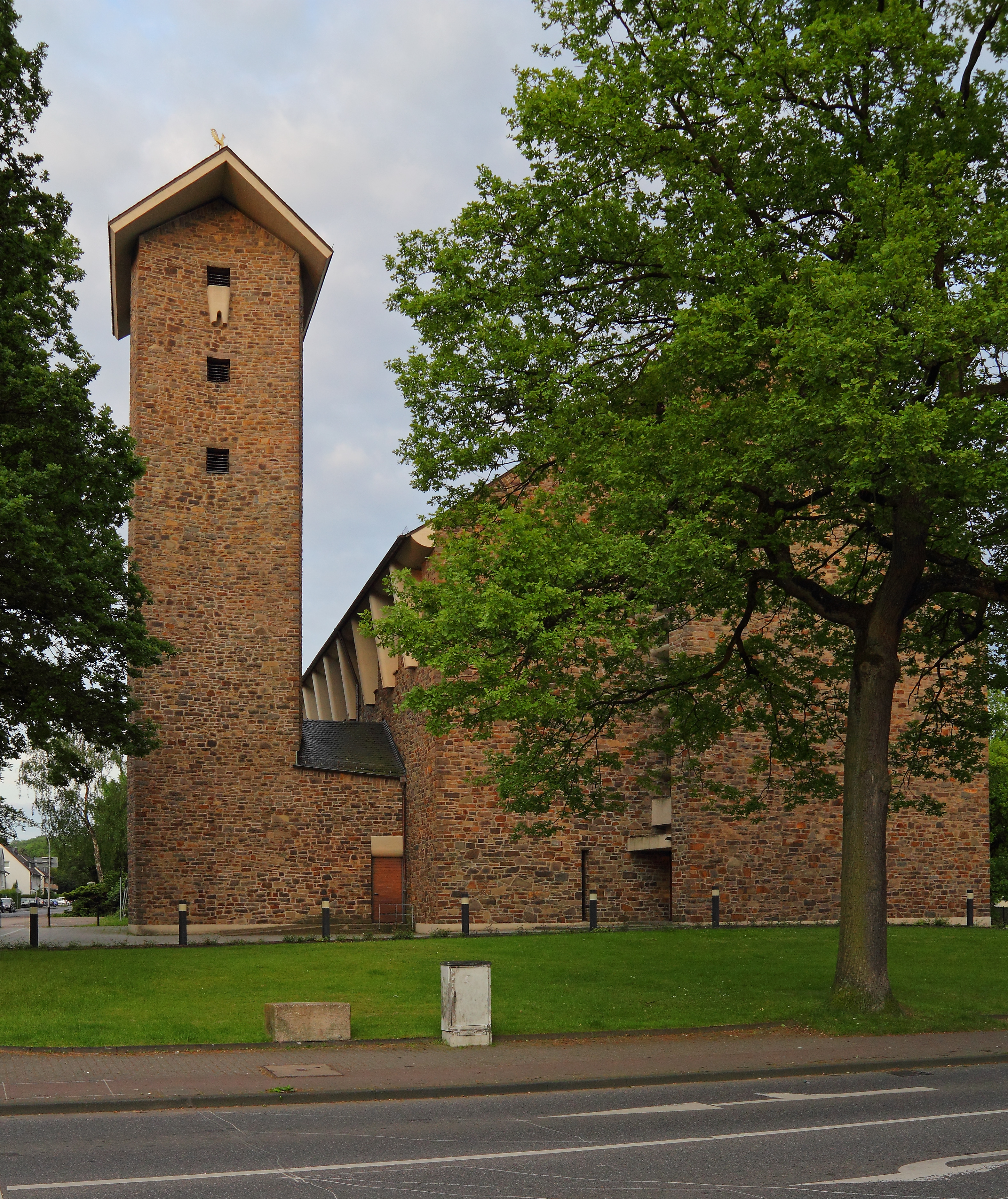 Church St. Joseph in Bergisch Gladbach - Heidkamp.